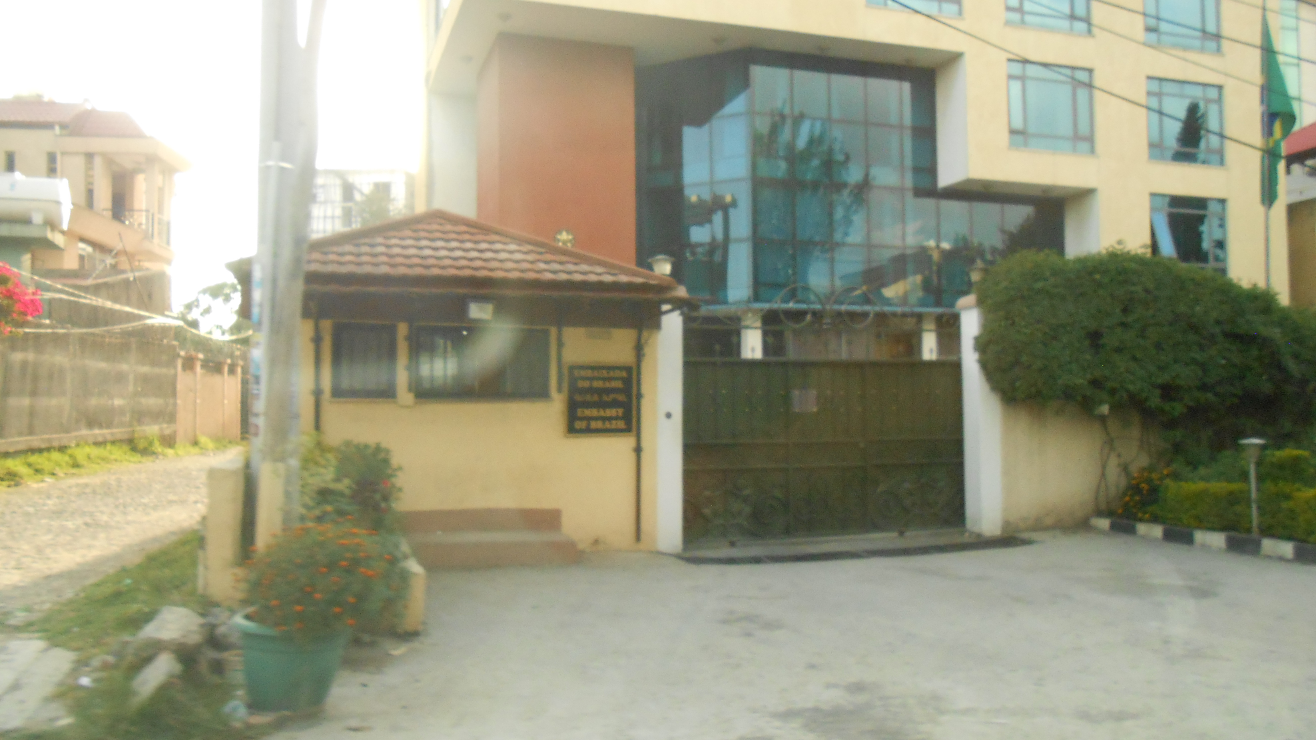 The brazilian embassy in Addis Ababa, capital of Ethiopia.